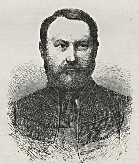 Portrait of Gusztáv Wenzel